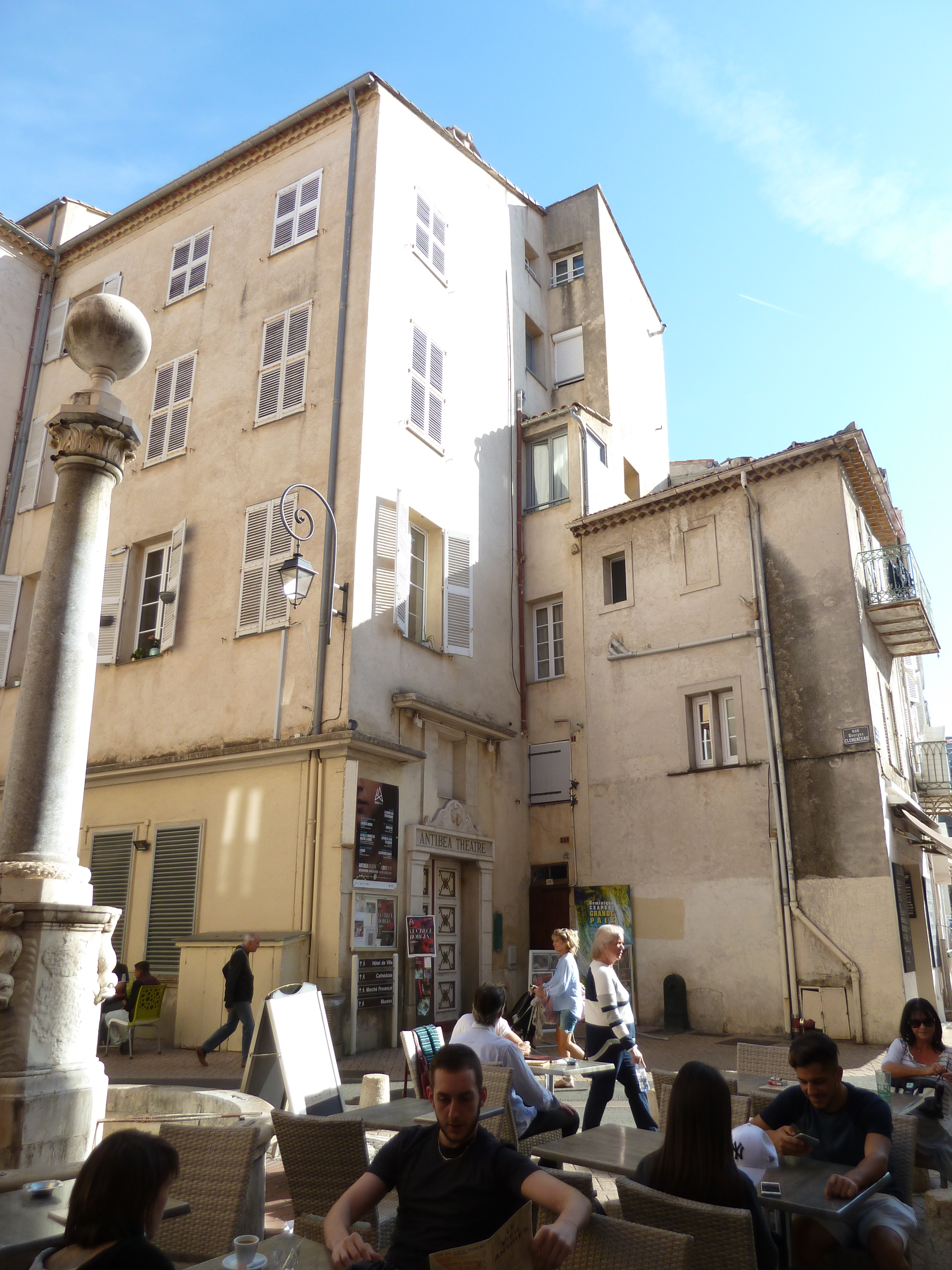 antibes